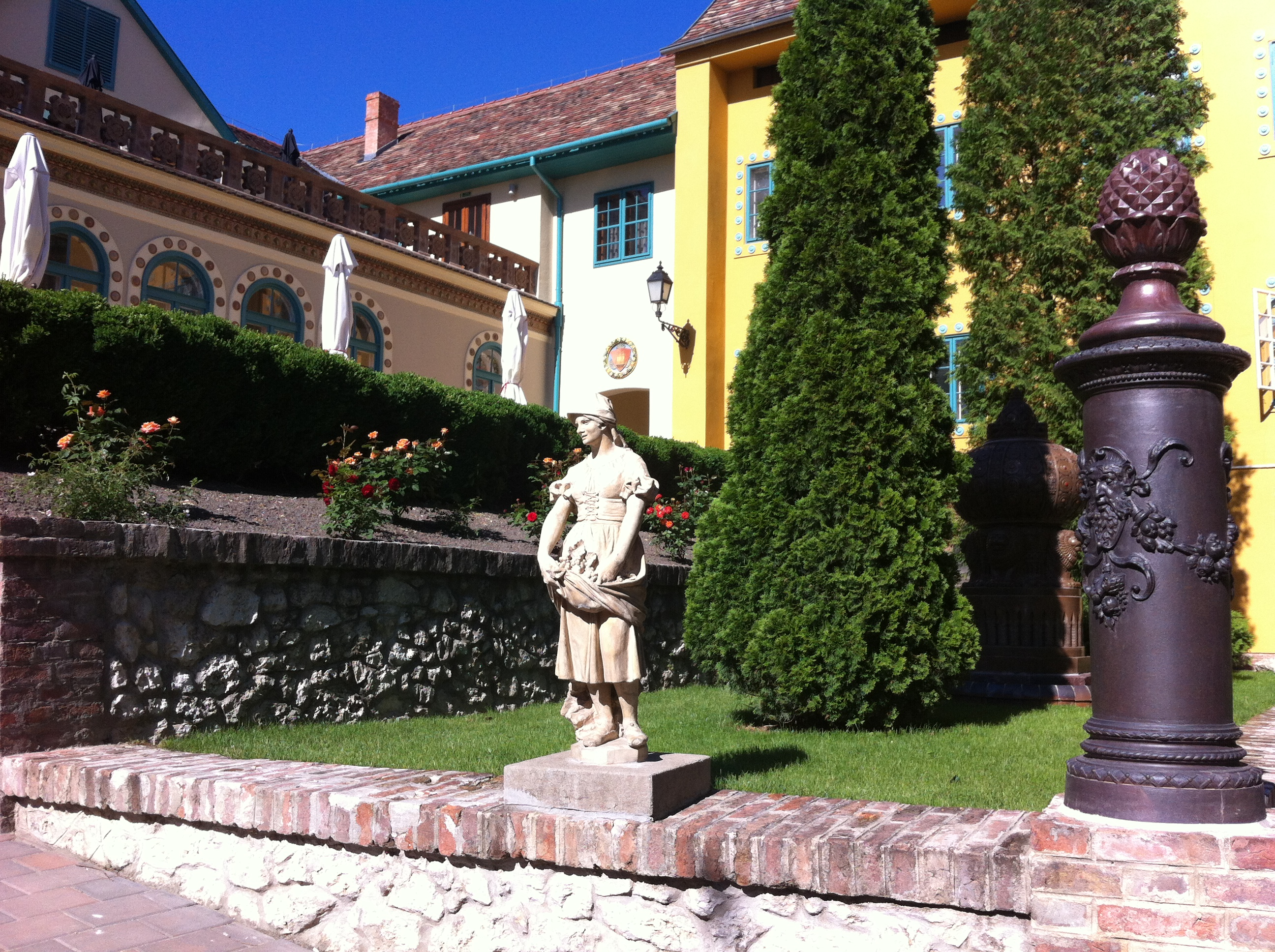 Building and statues in Zsolnay quarter